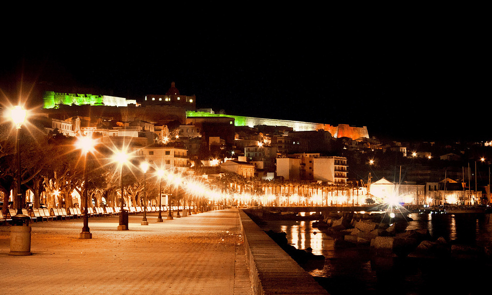 View by Lungomare Giuseppe Garibaldi